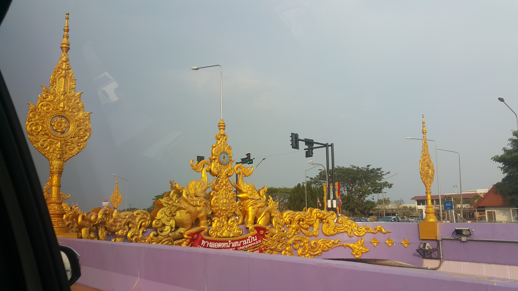 A road tunnel decorated with Thai style art in front of Chiang Rai International Airport in Chiang Rai, Thailand